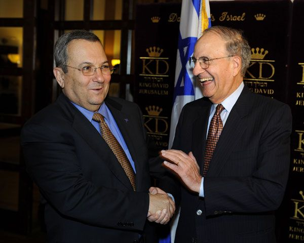 Special Envoy George Mitchell With Israeli Minister of Defense Ehud Barak at the King David Hotel, Jerusalem, 2009